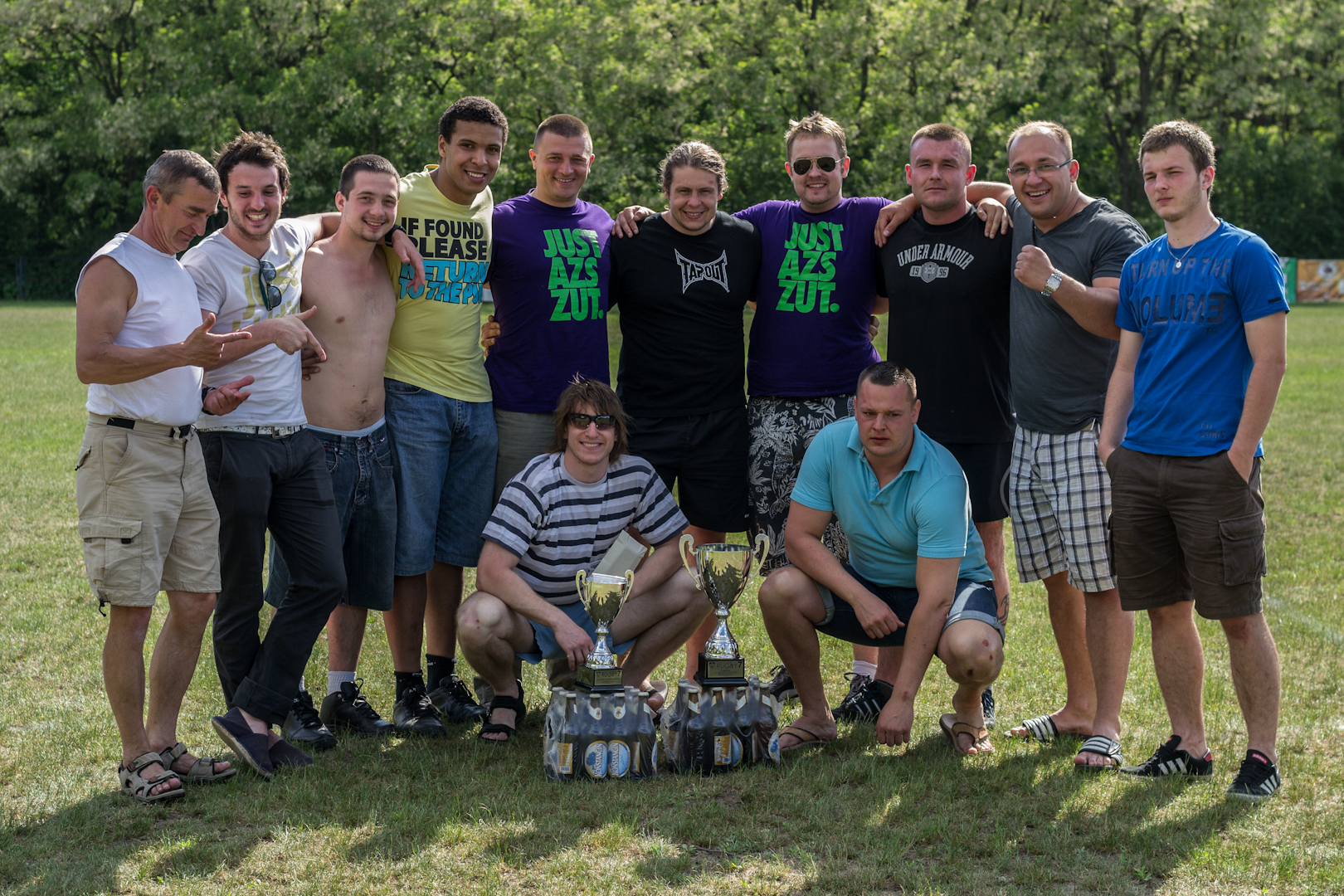 Akademicki Puchar Polski Warszawa 2012